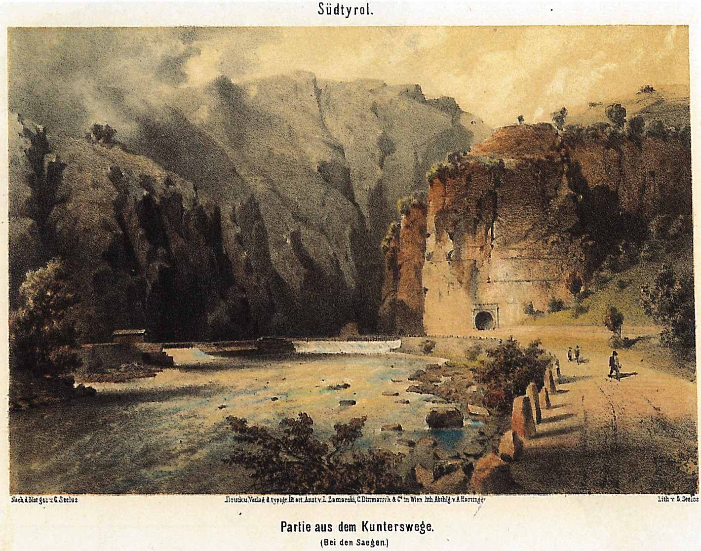 Gottfried Seelos' lithograph of the Bozen Kuntersweg 1867